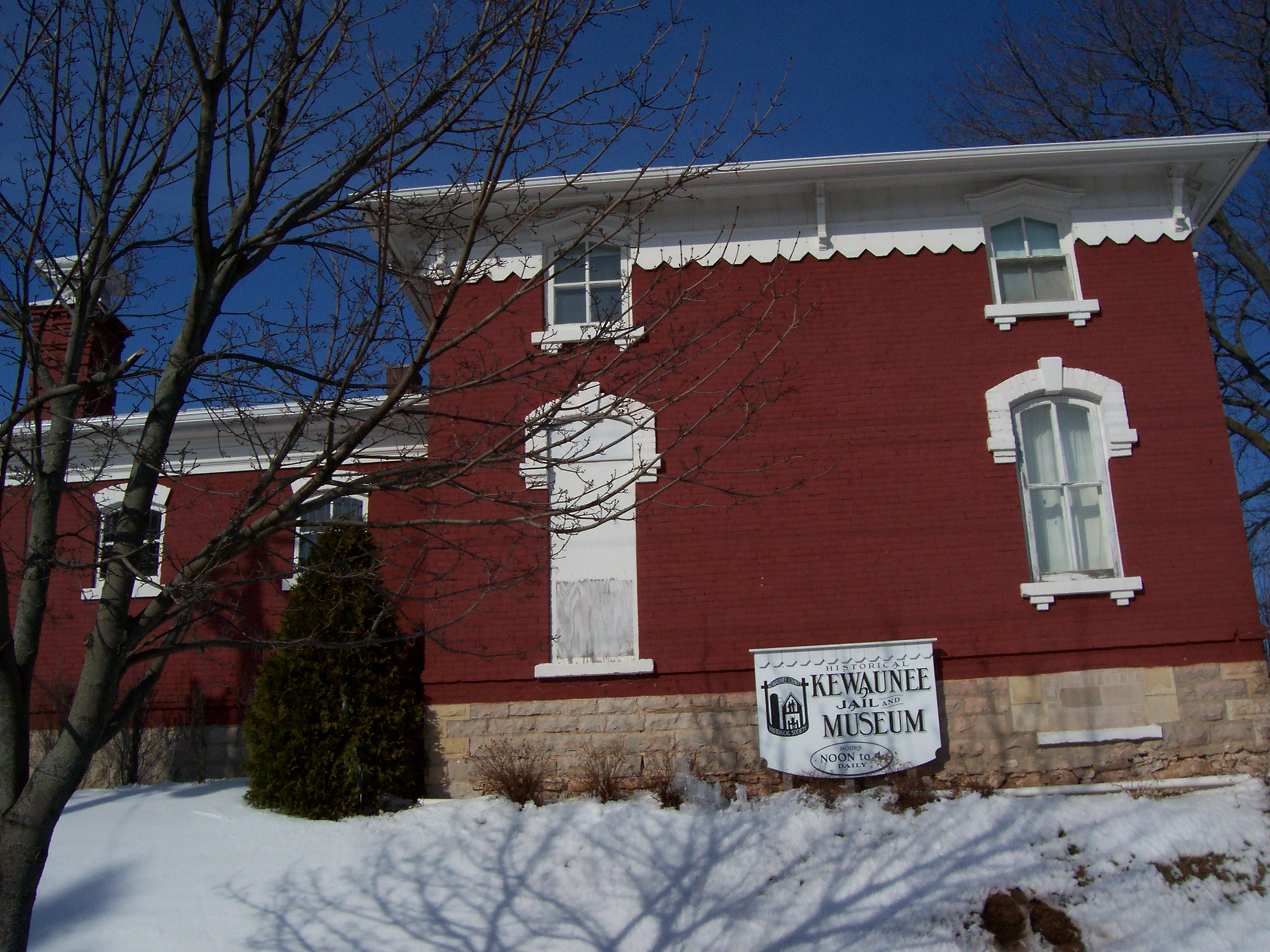 The Kewaunee County Sheriff's House and Jail in Kewaunee, Wisconsin, USA at the Kewaunee County, Wisconsin courthouse. It is listed on the National Register of Historic places.